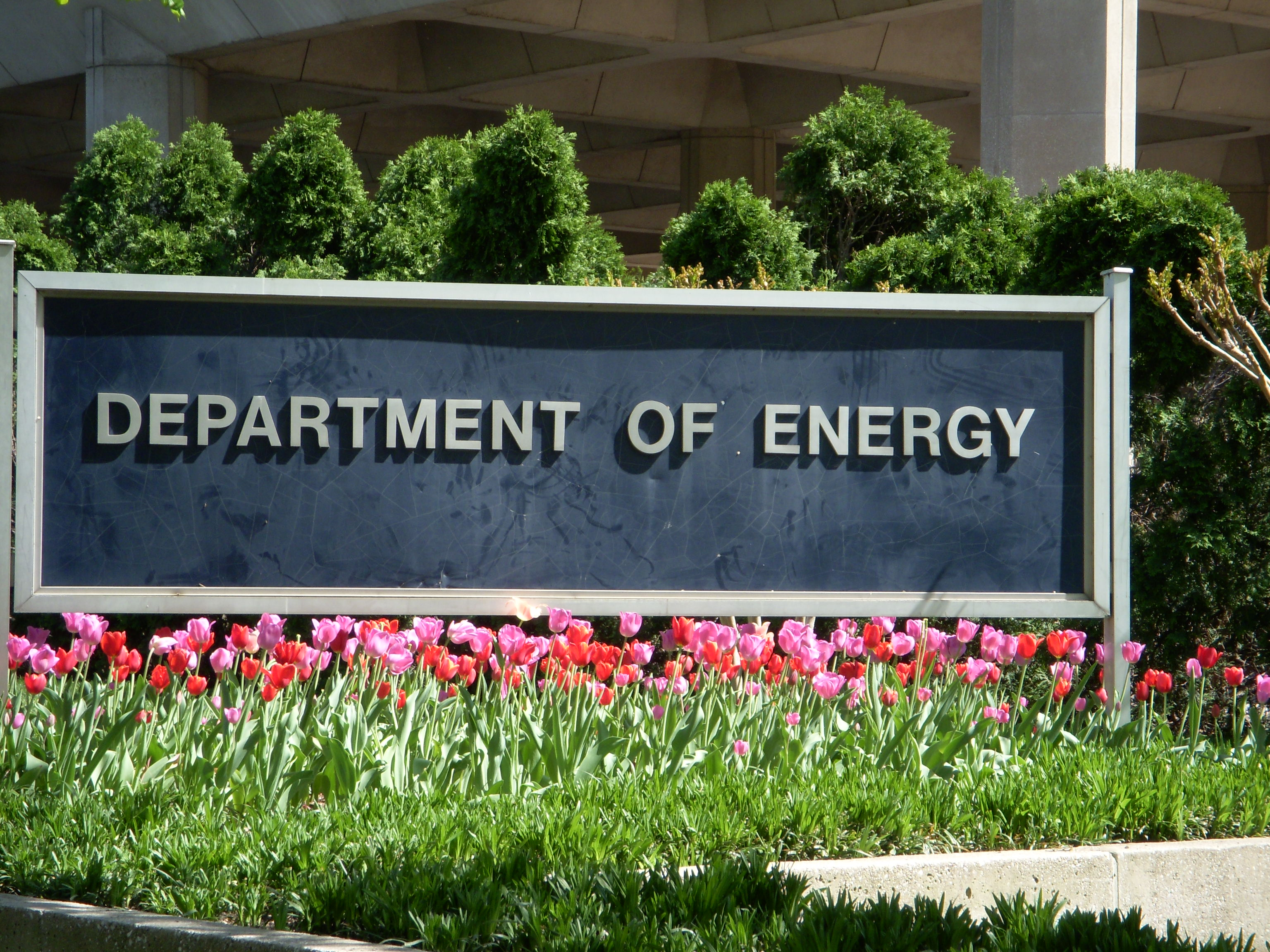 Sign at the James V. Forrestal Building — for the headquarters of the United States Department of Energy (DOE), in Southwest Washington, D.C.